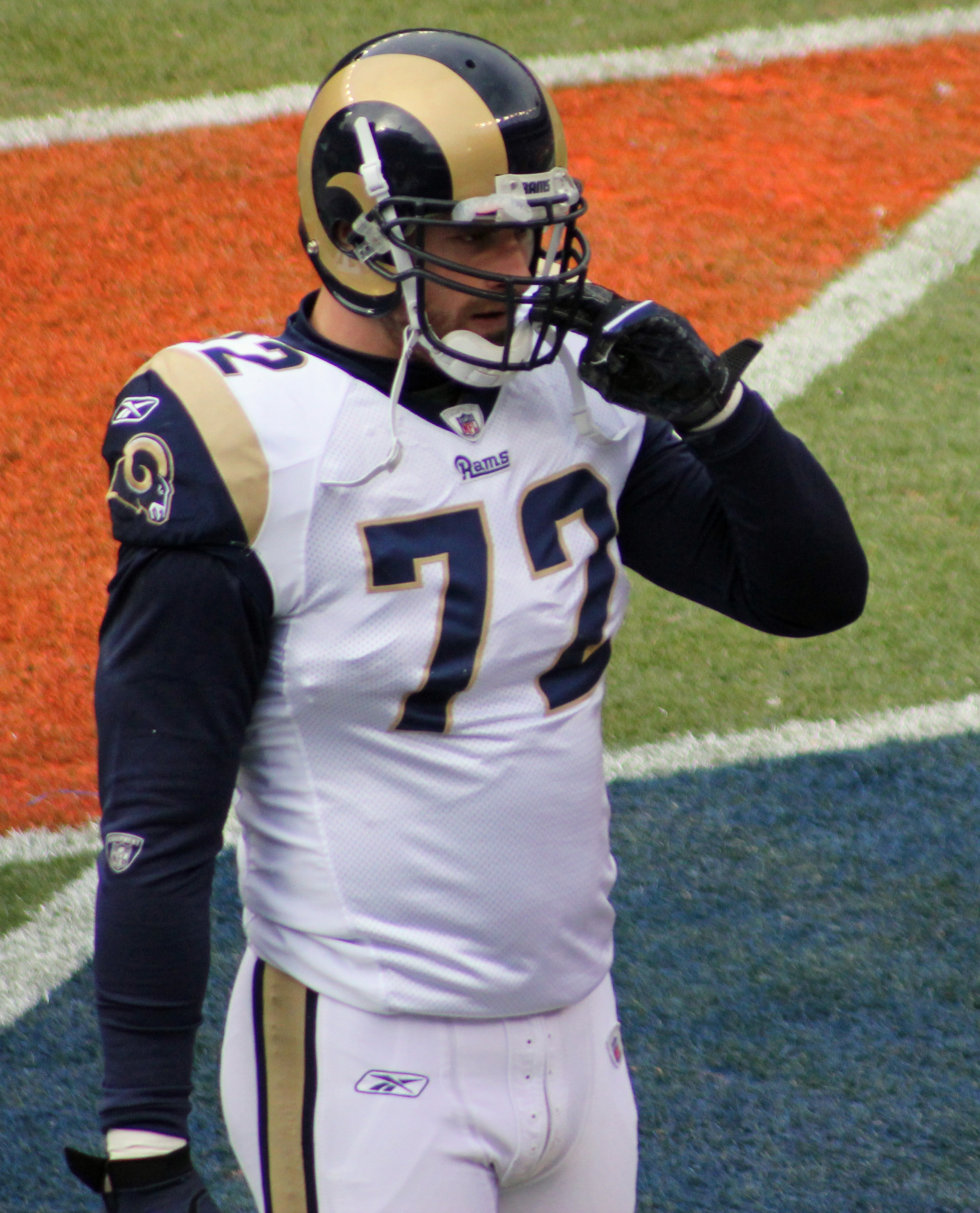 Chris Long, a player on the Saint Louis Rams American football team.